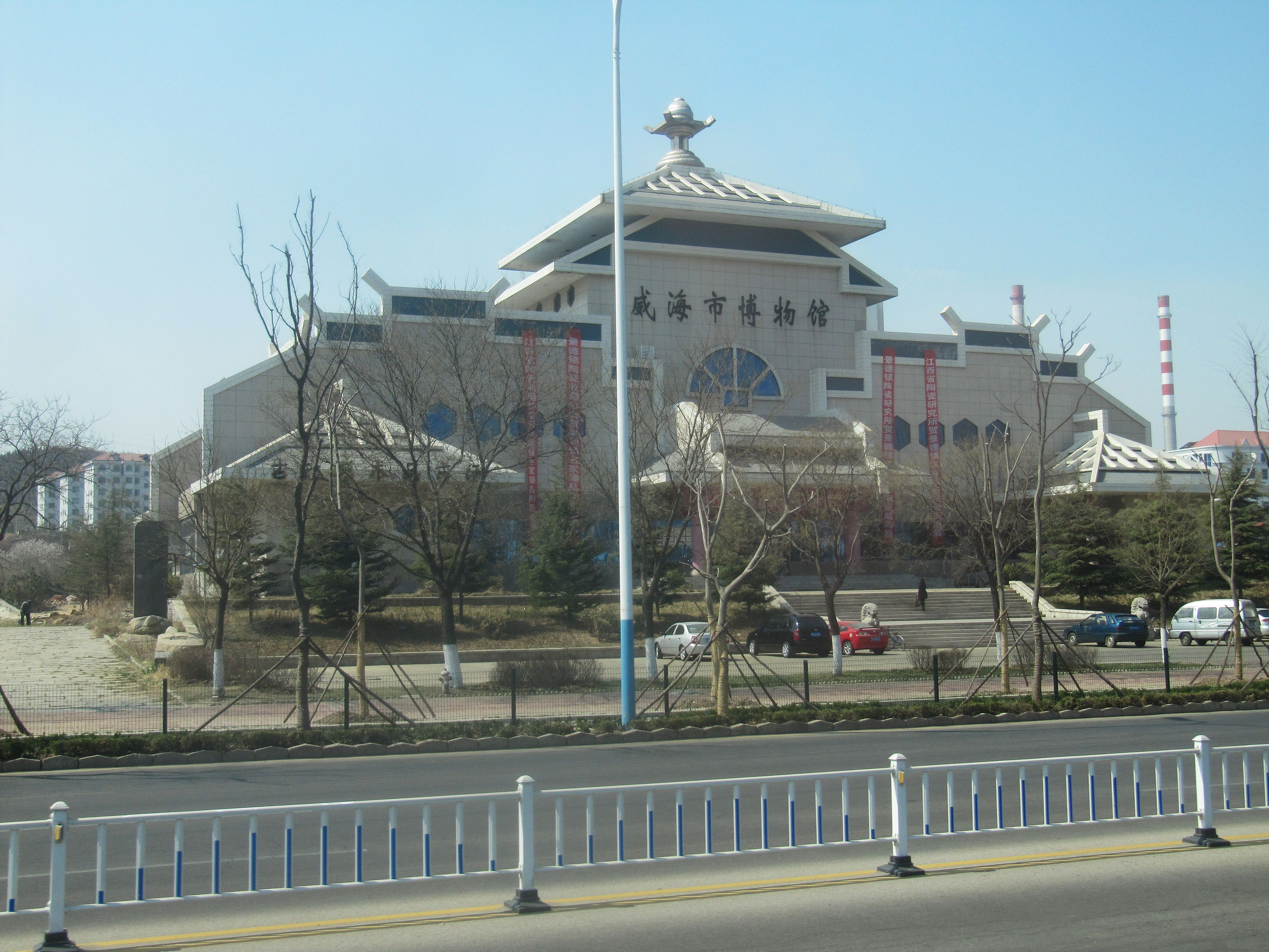 Weihai museum in Weihai, Shandong province, China. Build by Xíng Zhāngwén (邢章文) of Weihai Fangyuan architectural Design Co., Ltd (威海方园建筑设计有限公司).